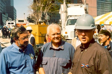 Rep. Dave Obey and Rep. Bill Young talk with former President Bill Clinton.